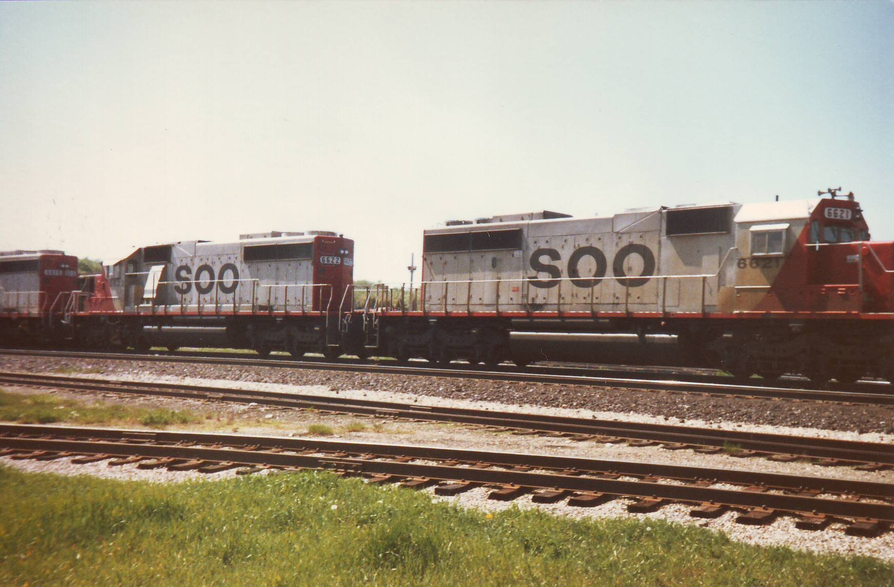 Two Soo Line Railroad EMD SD40-2 locomotives, numbered #6621 and #6622, at the rail yard in Campbellville, Ontario, Canada in 1988.